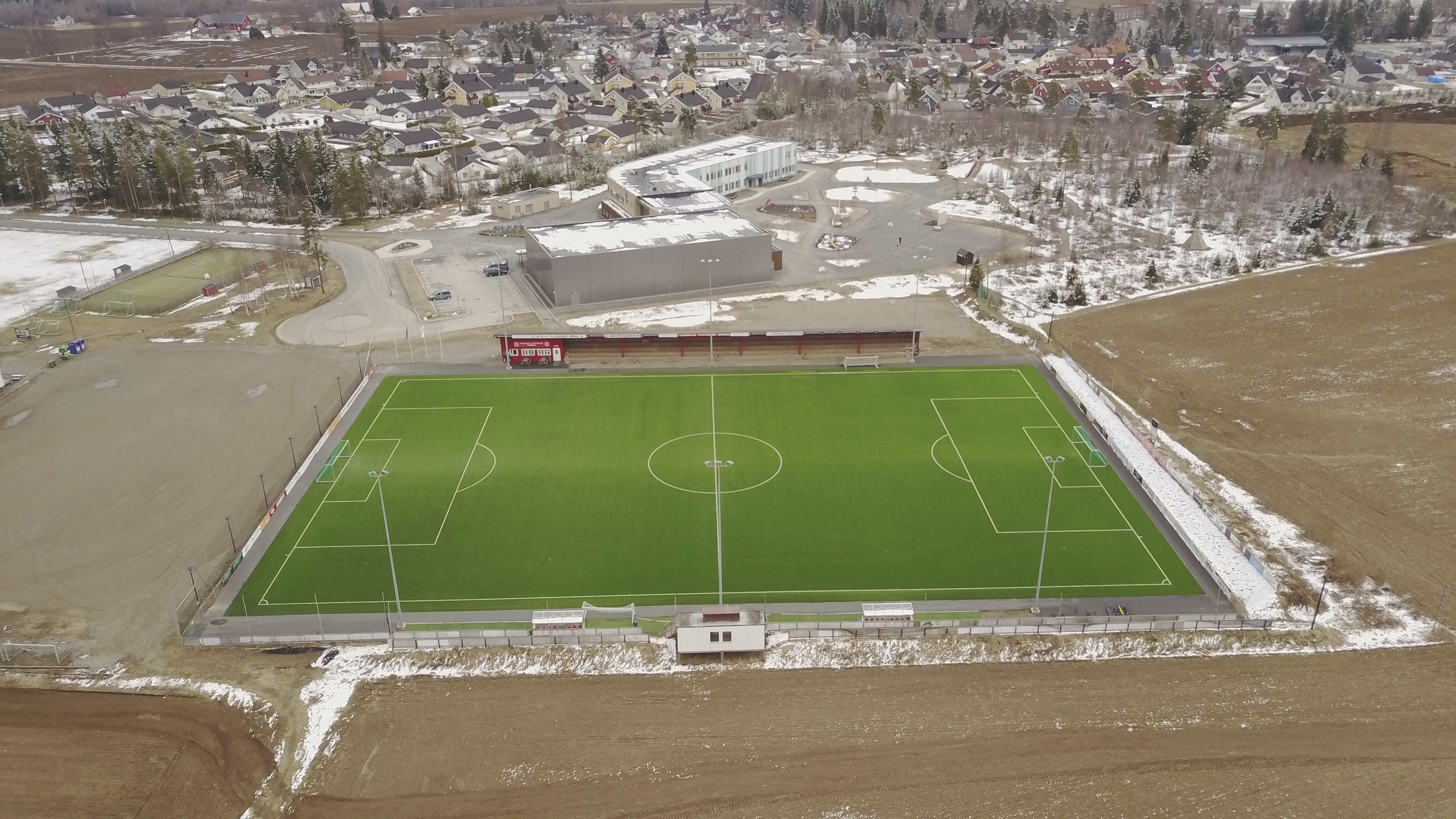 Nordkisa sports arena